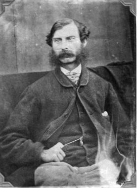 Australian painter, Haughton Forrest (1826-1925)